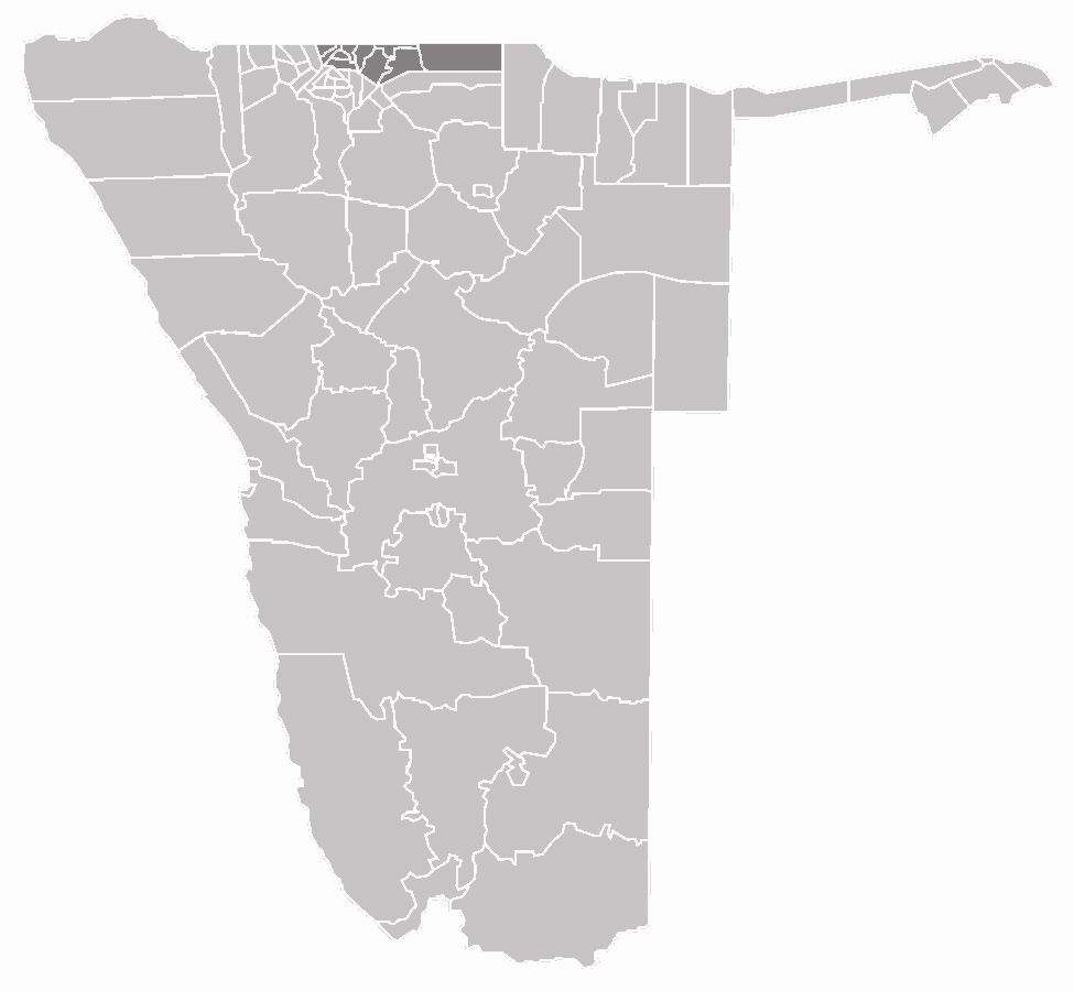 map of the Ohangwena region in Namibia